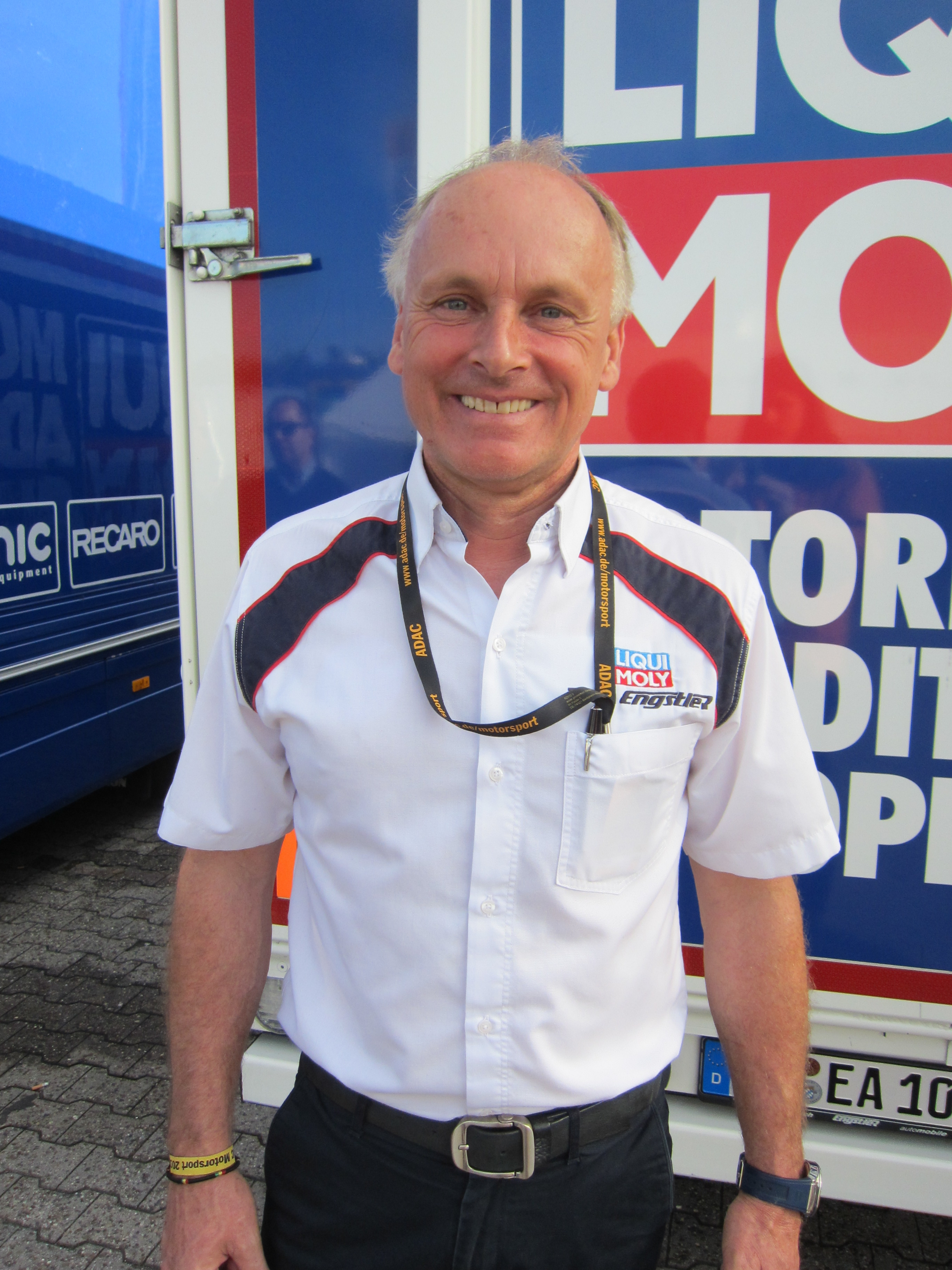 Franz Engstler: the photo was taken during 2015's ADAC GT Masters race weekend at Hockenheim